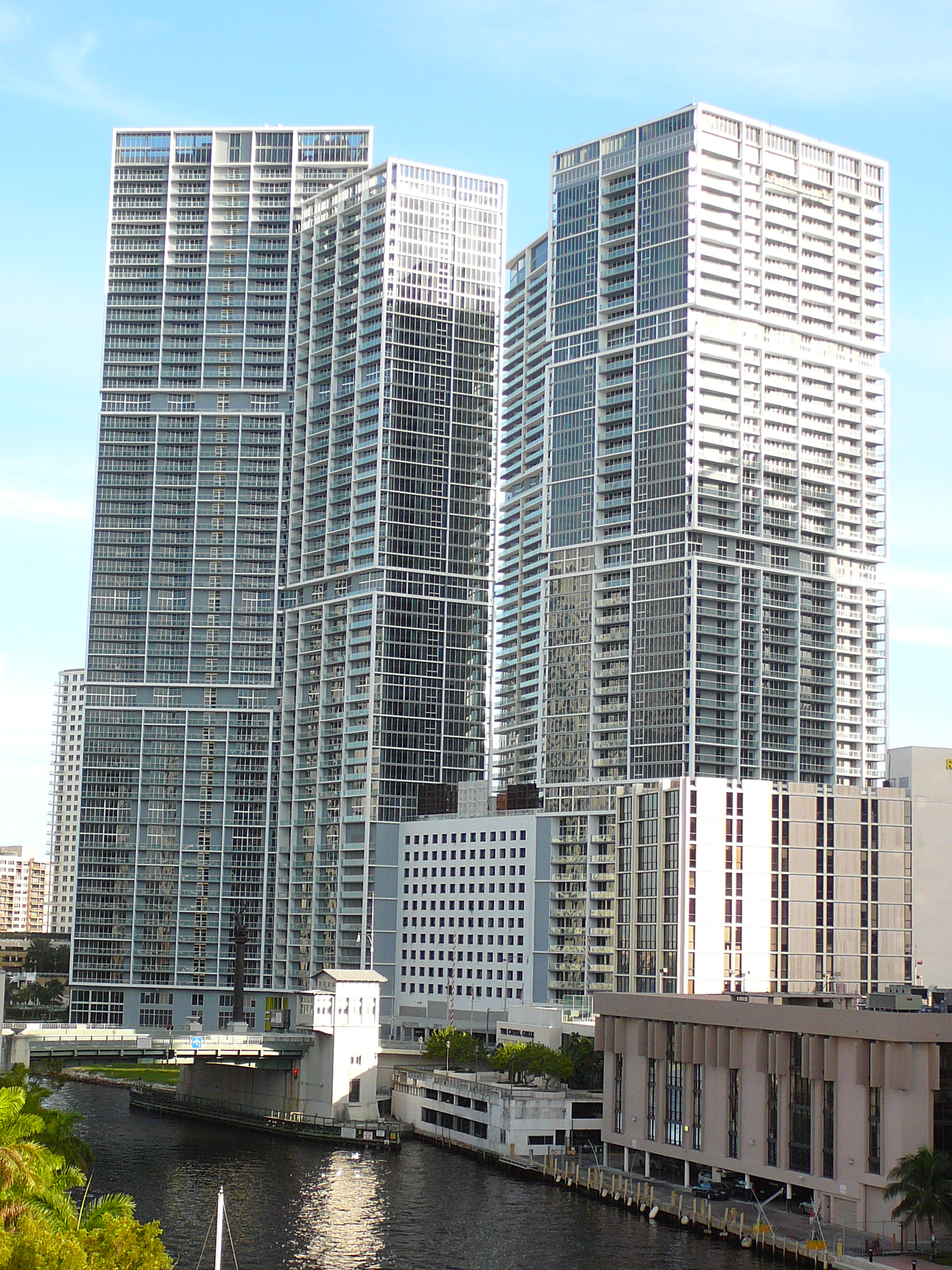 Digital photo taken by Marc Averette. The Icon Brickell complex in downtown Miami, stand at the northern entrance to Miami's Financial (Brickell) district. 5/14/2008